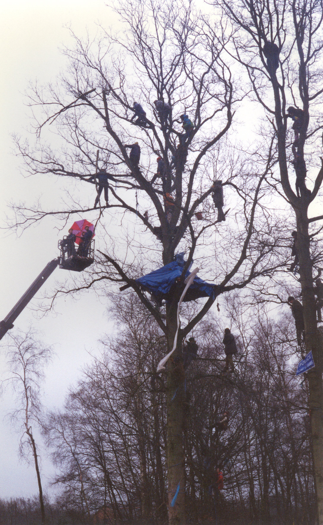 Photograph taken by Nick Woolley at Tot Hill, Newbury.